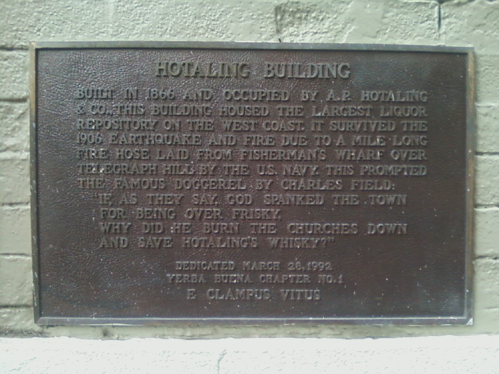 Photograph of a commemorative plaque at 455 Jackson Street in San Francisco, California, on a building which survived the 1906 earthquake and fire.